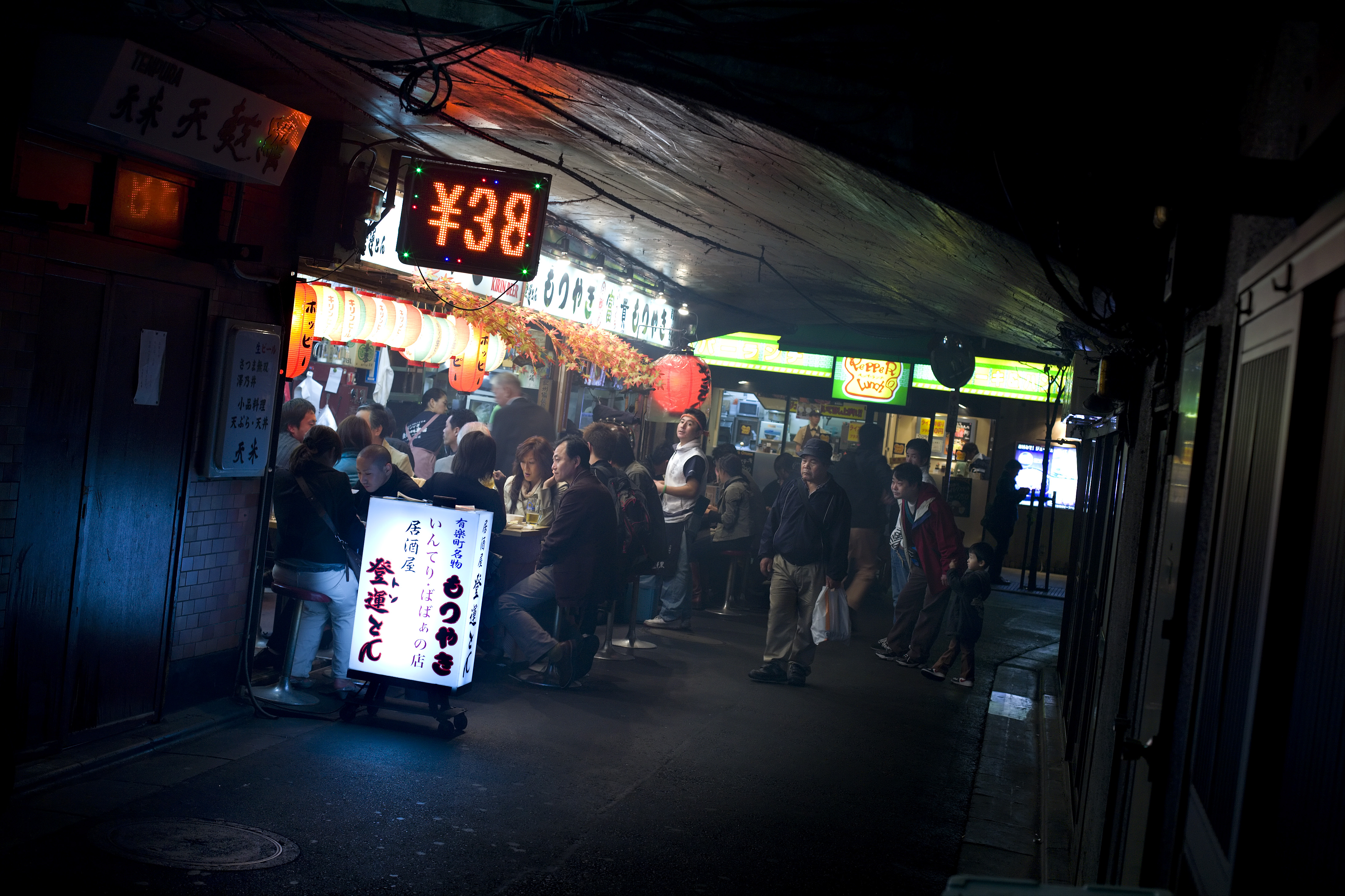 Busy Yakitori (grilled skewered meat) bar in an underpass near Shimbashi station, Tokyo.